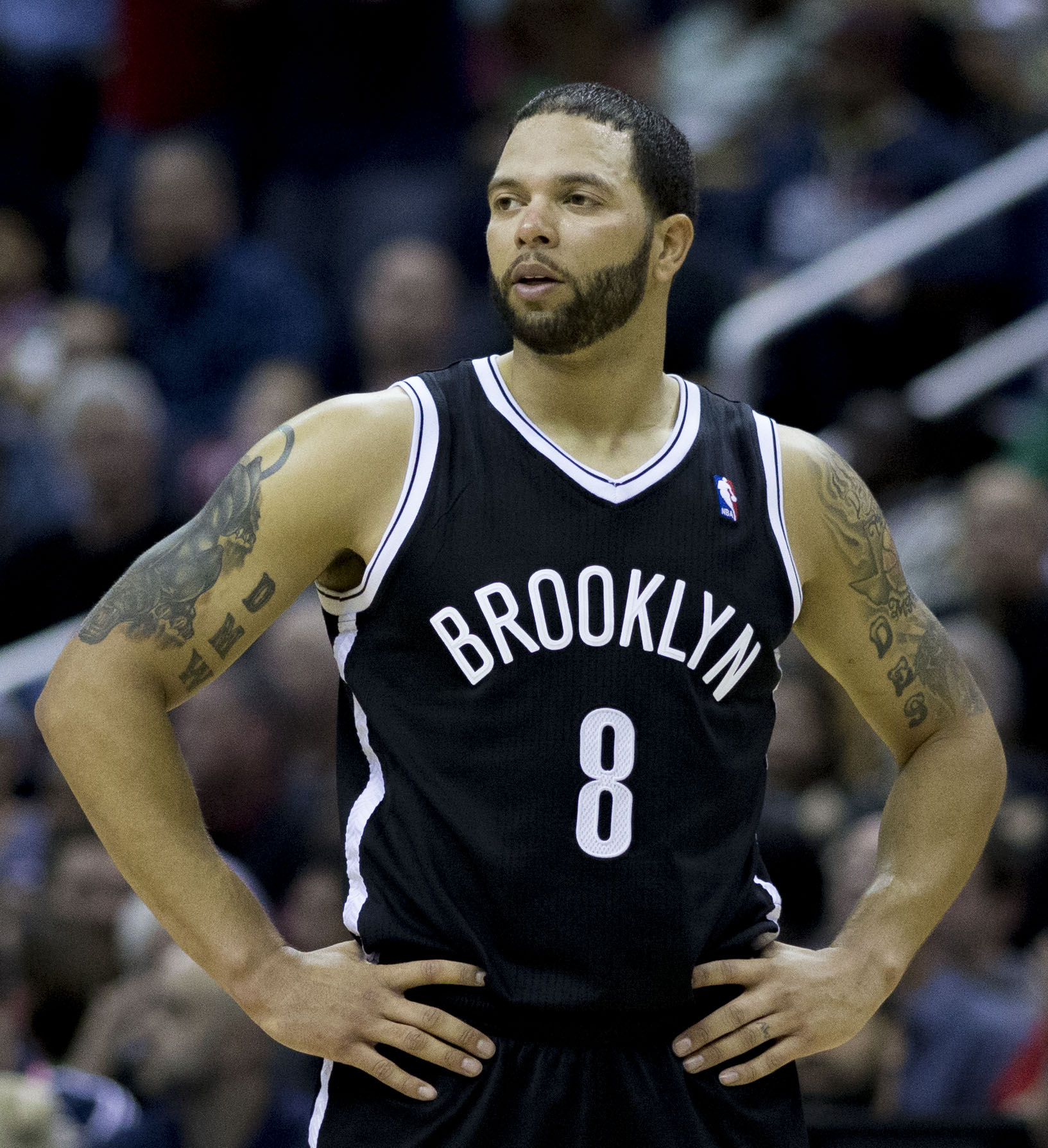 Deron Williams #8 of the Brooklyn Nets in a game against the Washington Wizards at the Verizon Center on March 15, 2014 in Washington, DC.